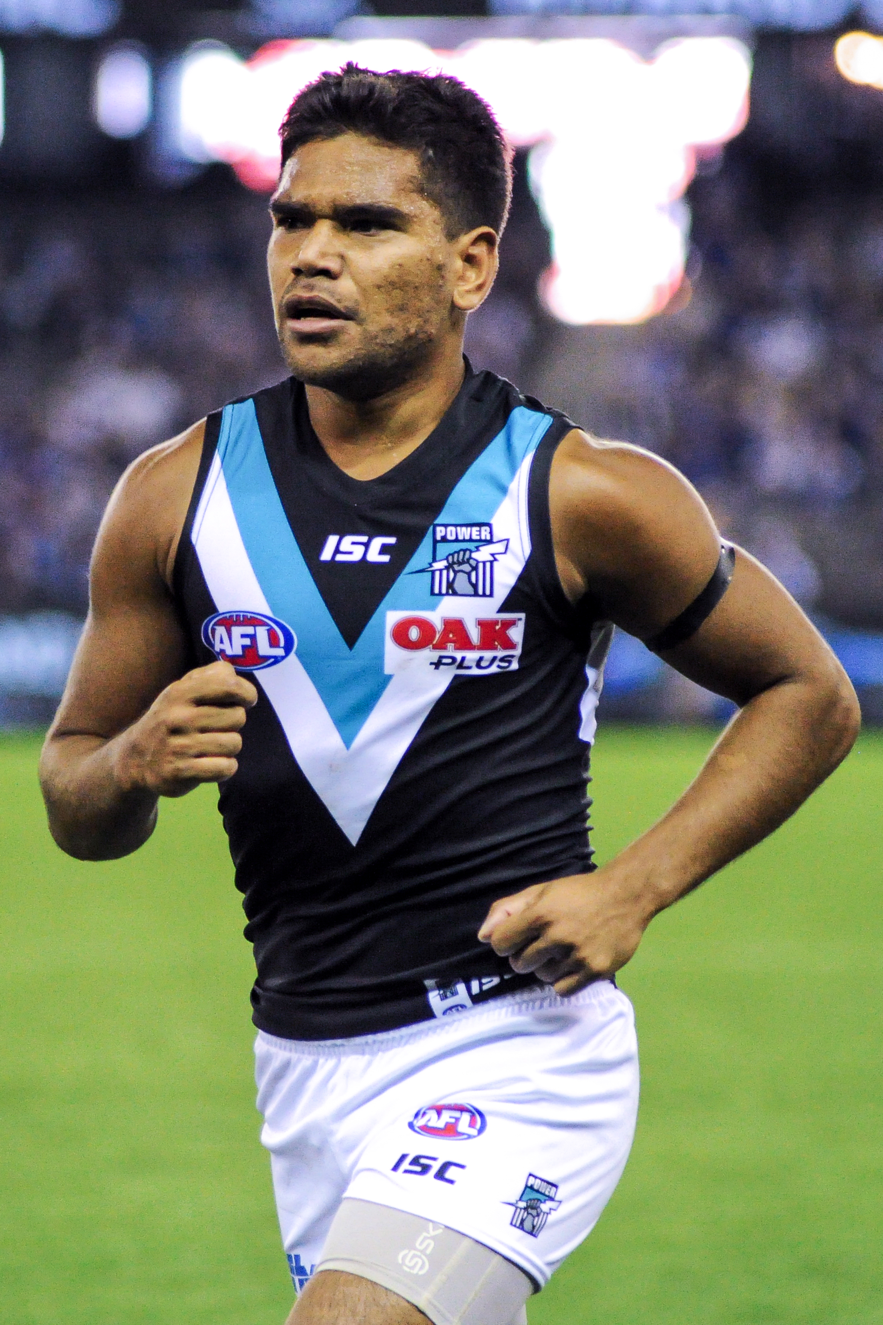 Jake Neade during the AFL round six match between North Melbourne and Port Adelaide on Saturday, 28 April 2018 at Etihad Stadium in Melbourne, Victoria.